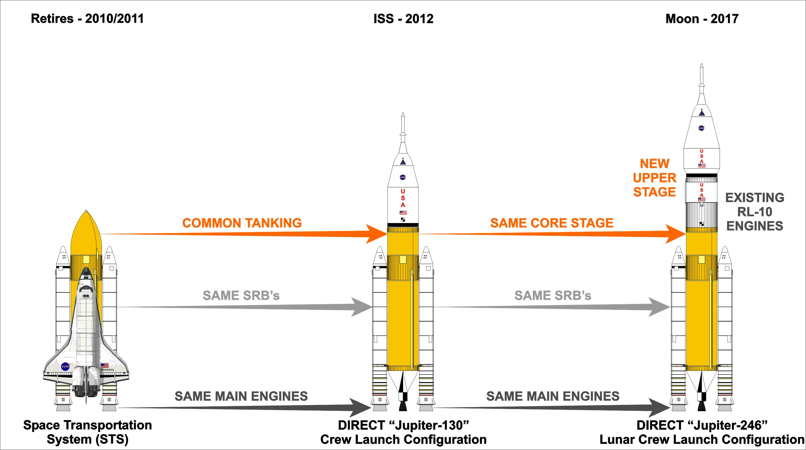 DIRECT shares significant, immediate commonality with existing Space Shuttle hardware. Image from the DIRECT Proposal, (c) , uploaded to Wikipedia by the original author.